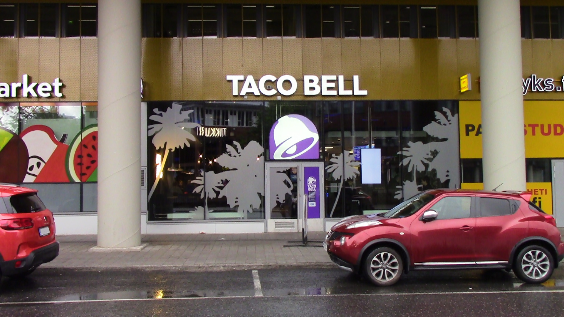 Taco Bell restaurant at Dixi shopping center in Vantaa, Finland.